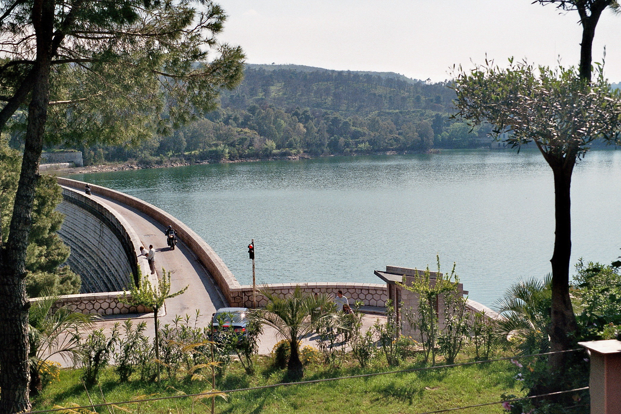 The gravity dam of Lake Marathon in Attica/Greece